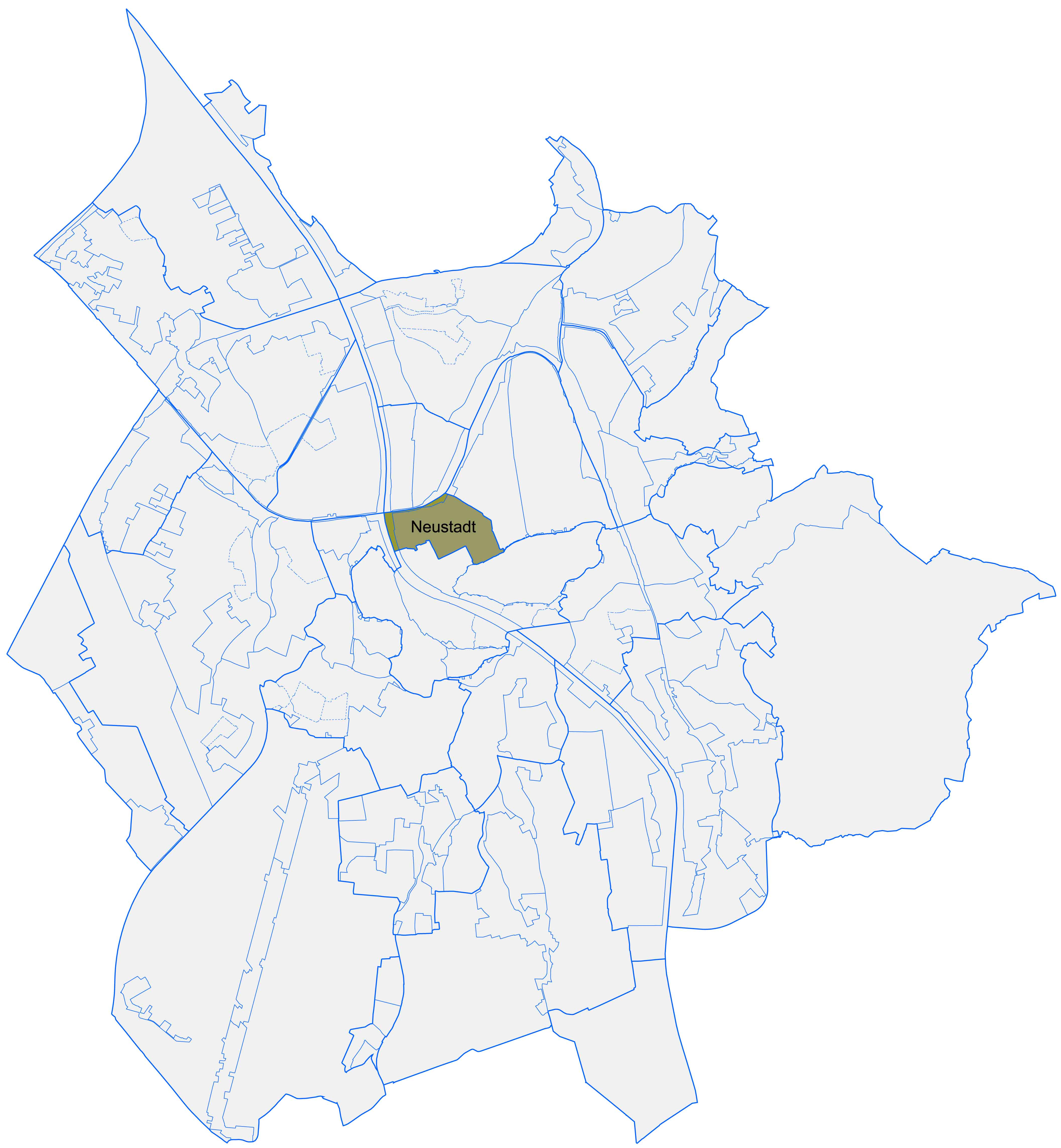 a quarter of Salzburg: Neustadt